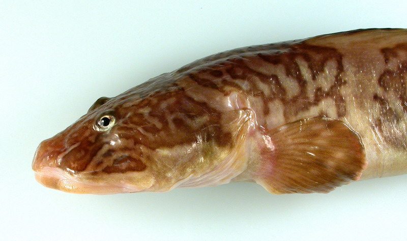 A Marbled Eel pout, or Lycodes raridens.